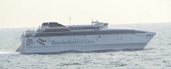 The Danish ferry Villum Clausen. Photographed by video camera on neighbouring ferry